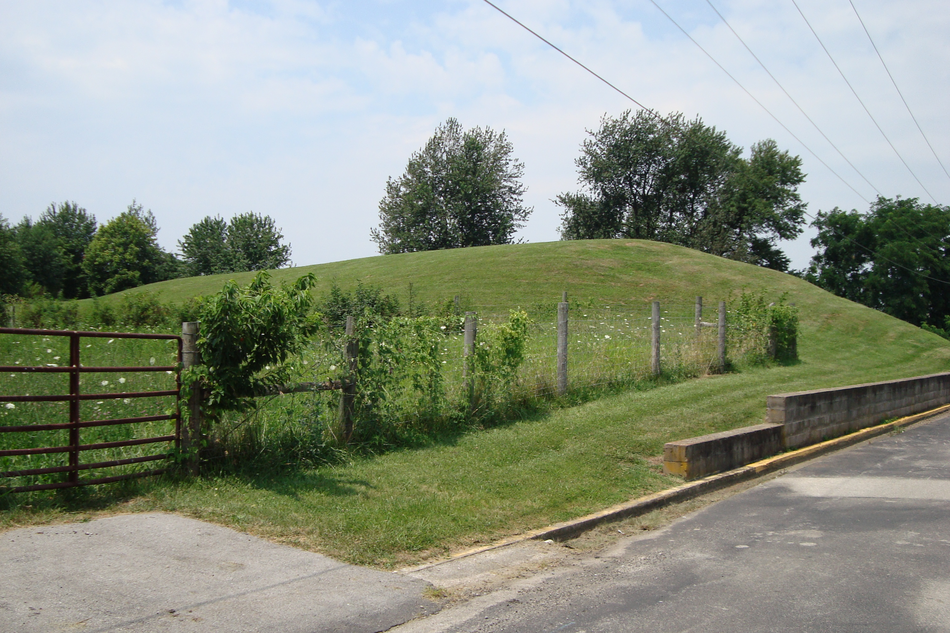 Gaitskill Mound, an earthwork attributed to the Adena culture and located in Mount Sterling, Kentucky, USA.